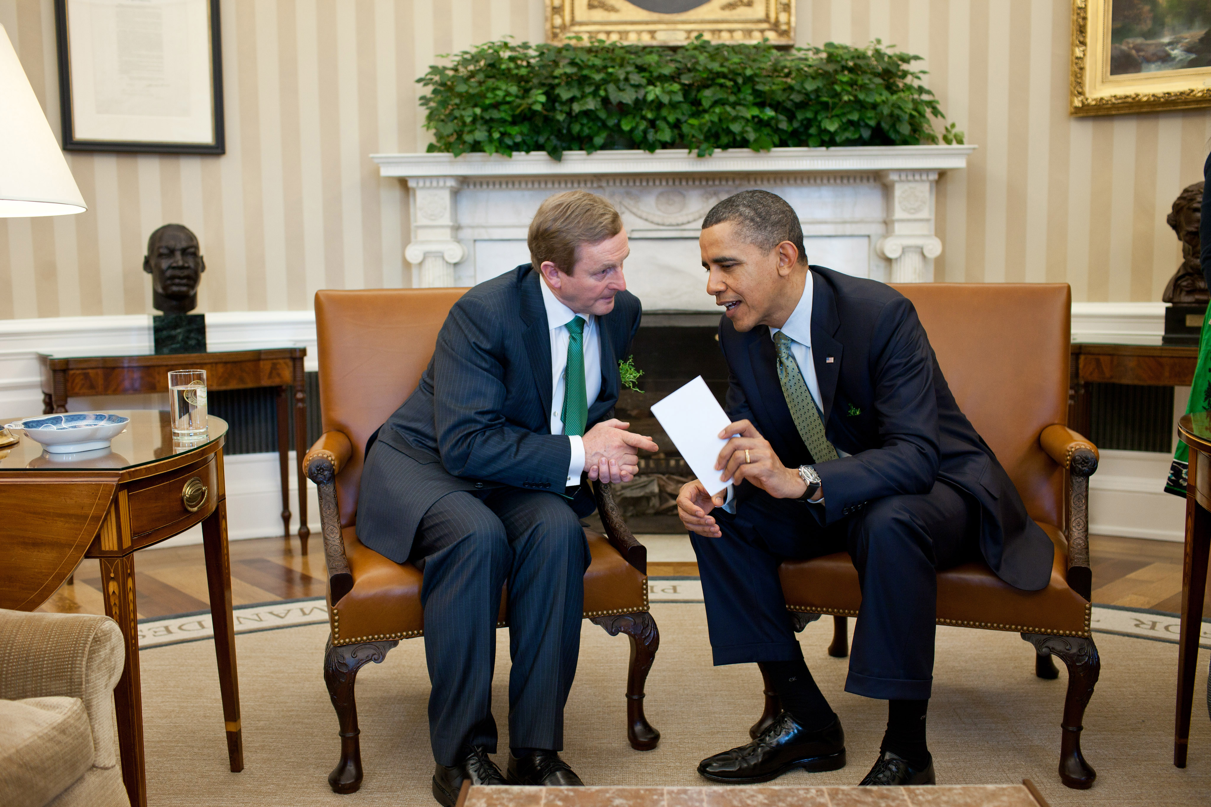 Taoiseach Enda Kenny confers with U.S. President Barack Obama following their bilateral meeting in the Oval Office on Saint Patrick's Day, 17 March 2011.